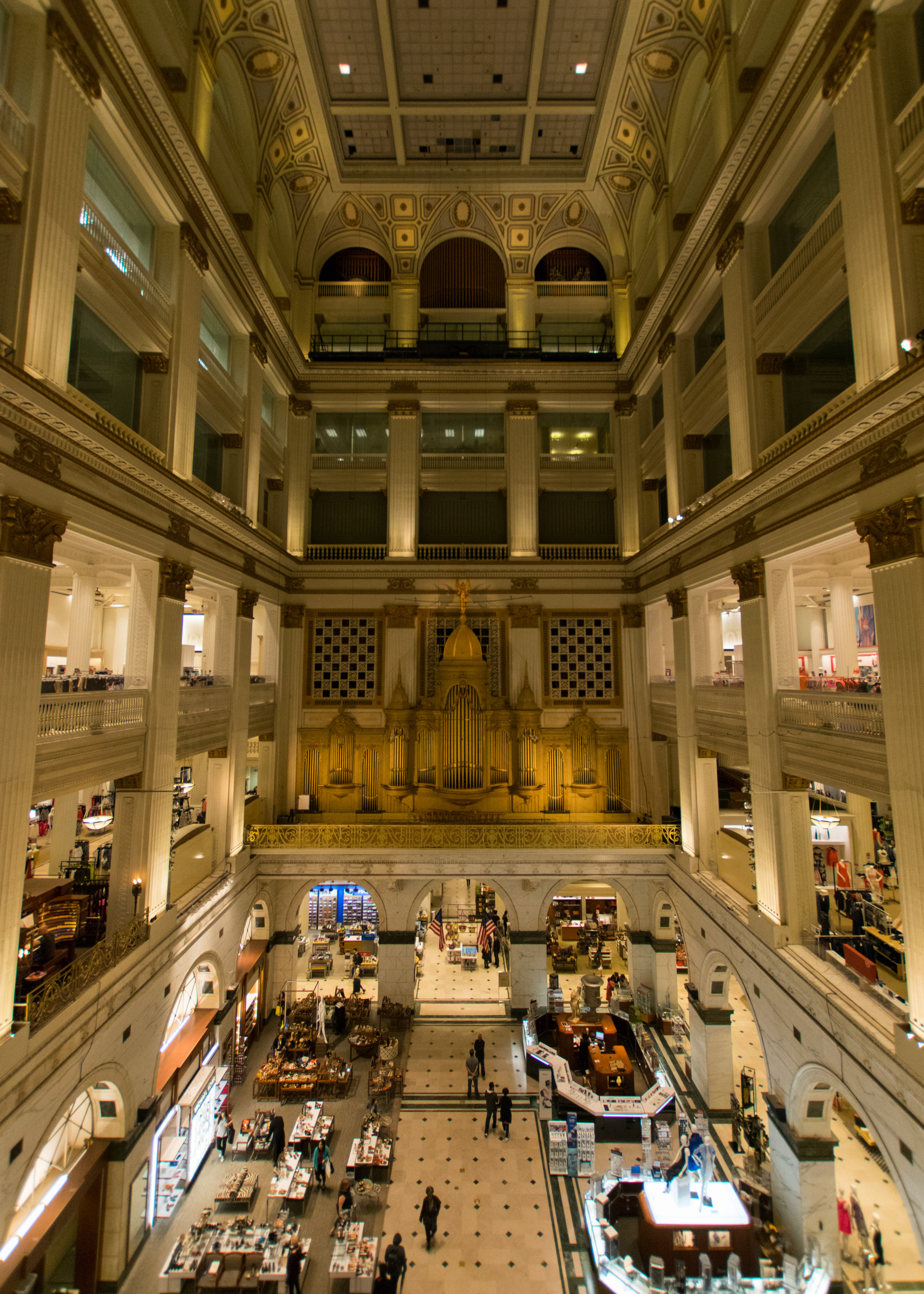 Grand Court of Macy's Center City